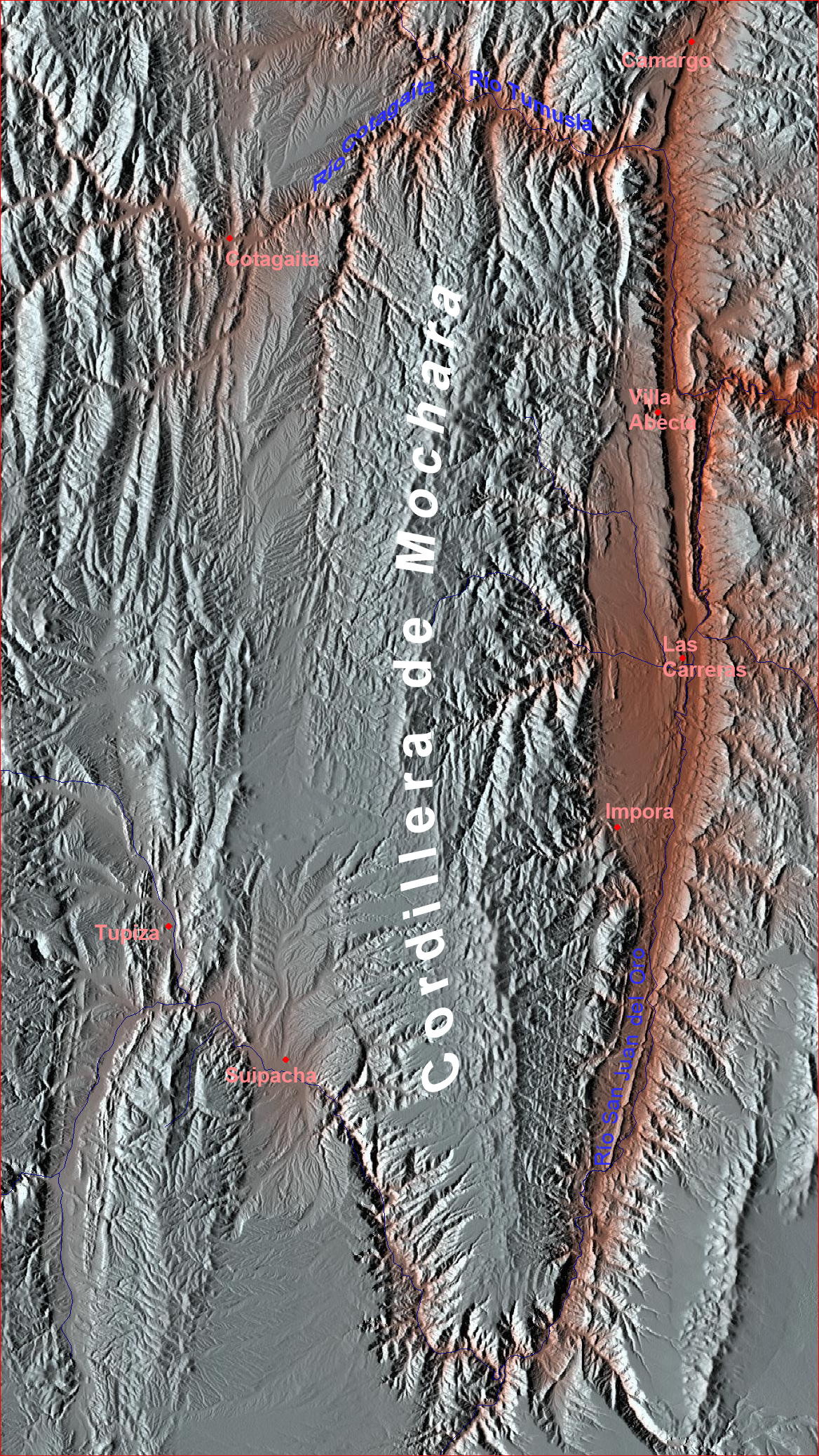 Cordillera de Mochara